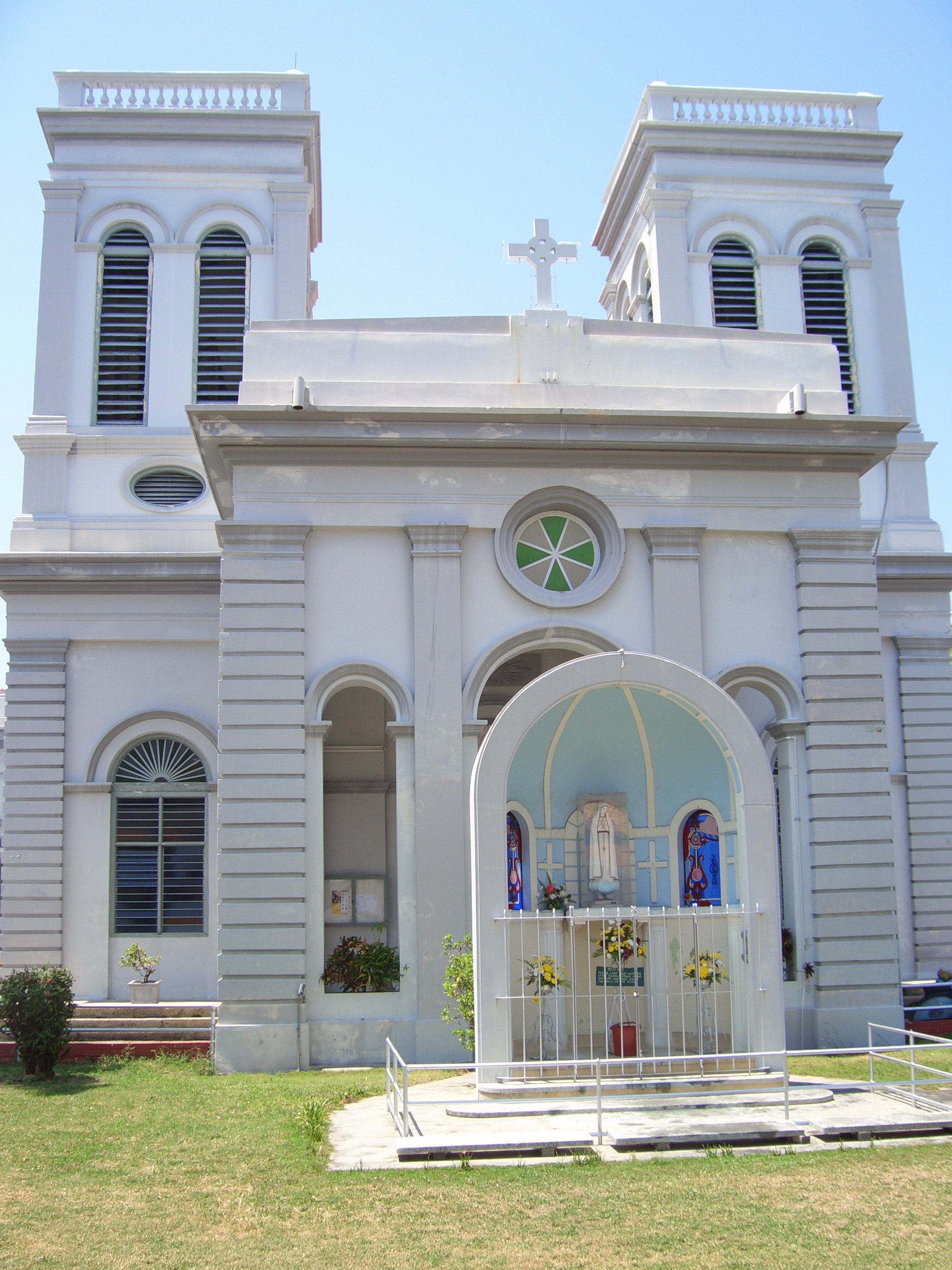 In 1786, the Roman Catholic community of Luala Kedah (a state north of Penang) relocated to Penang on the eve of the Feast of the Assumption. Father Garnault established the Church of the Assumption at Church Street. The present church building on Lebuh Farquhar started service in 1861. The church was elevated to the Cathedral of the Diocese of Penang in 1955.